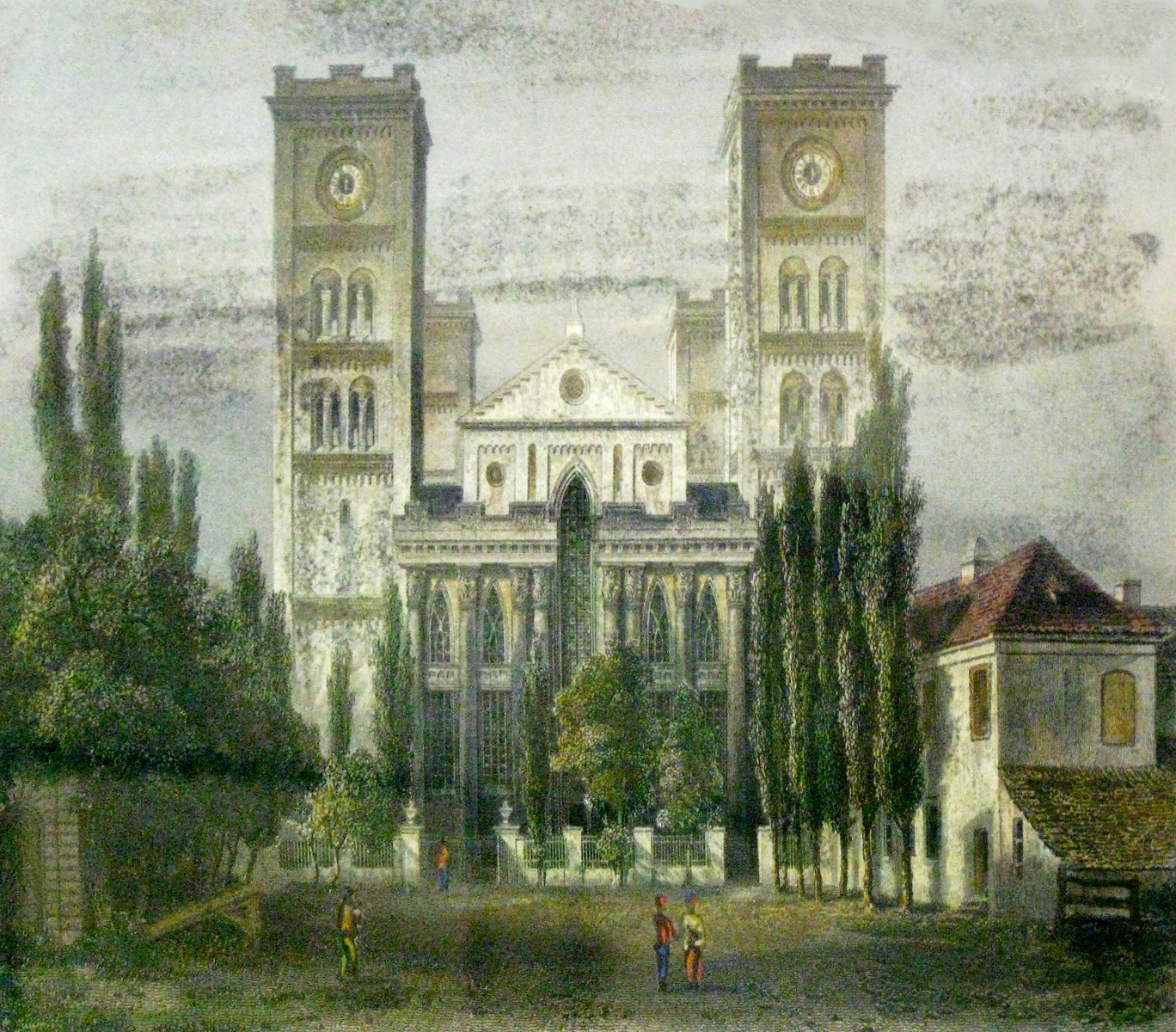 Pécs Cathedral after classicist renovation by Mihaly Pollack (1807 This is a photo of a monument in Hungary, Identifier: 1796